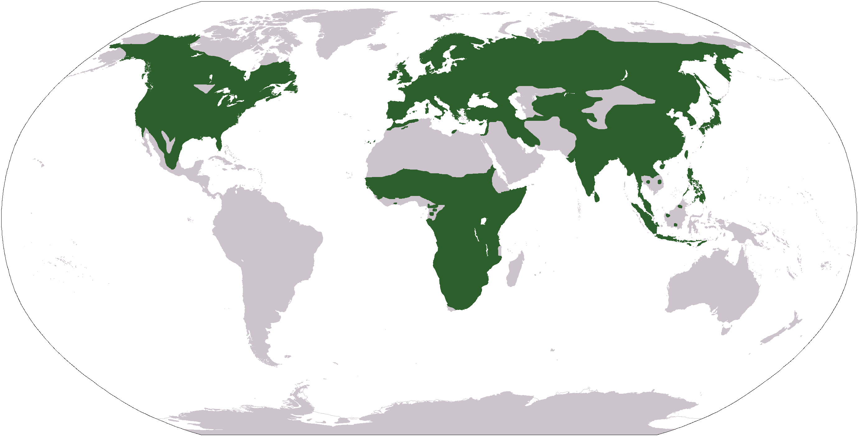 Distribution of the family Paridae Large plain-grey map of world created by adapting Image:LocationSouthAmerica.png. Previous image uploaded by User:UserLogin now at Image:LocationWorld (green, small).png.